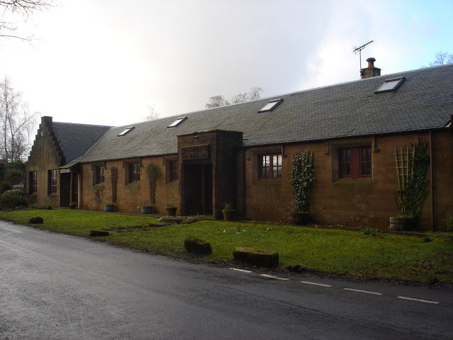 Strathallan Village Hall, Tullibardine Now a private house